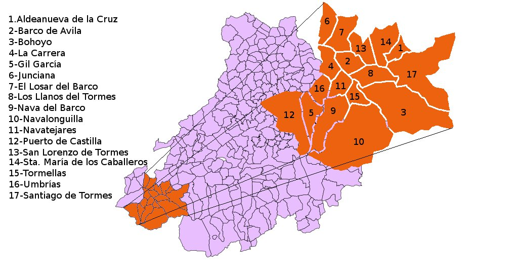 Municipios del Arcipestazgo de Barco de Avila